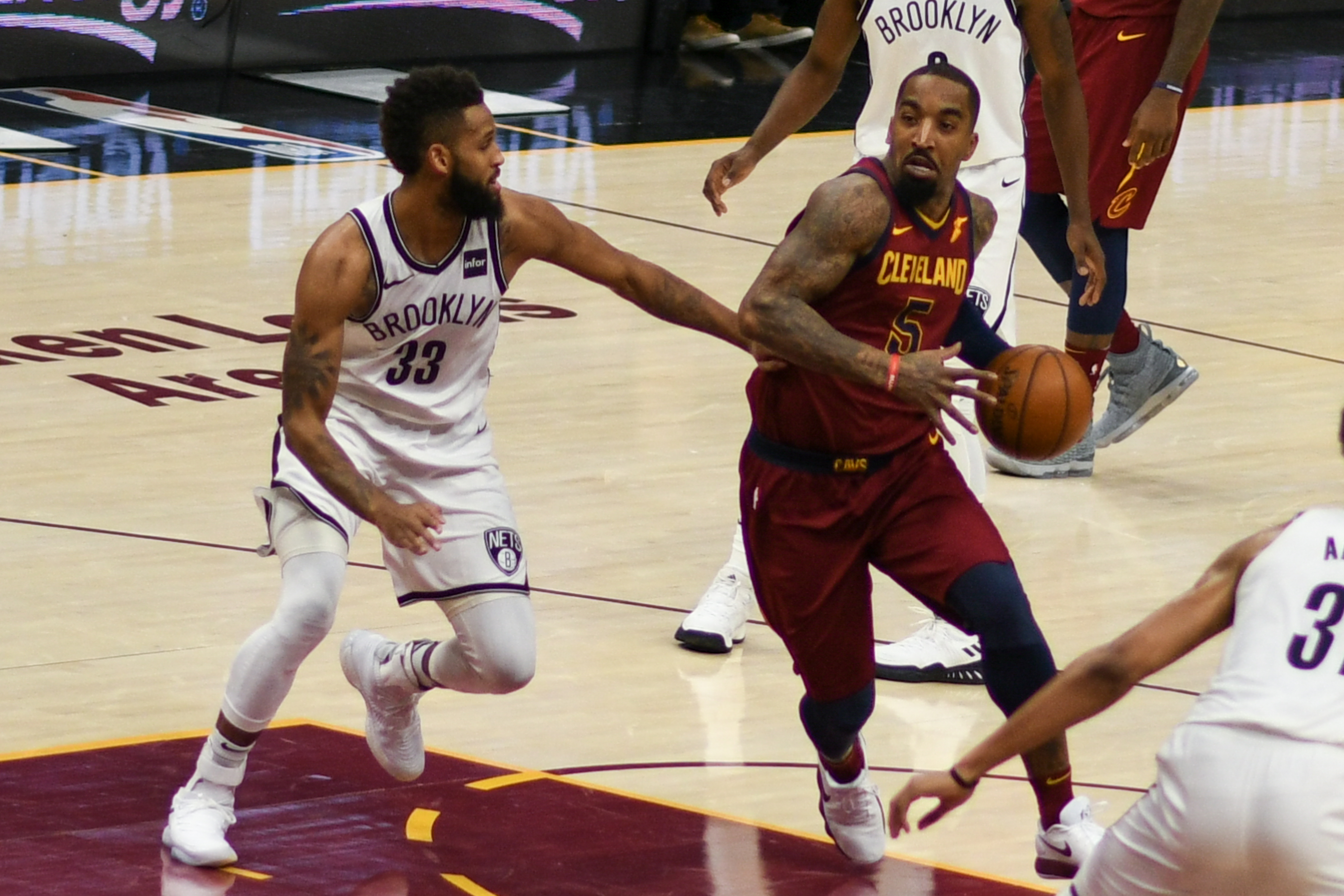 J.R. Smith